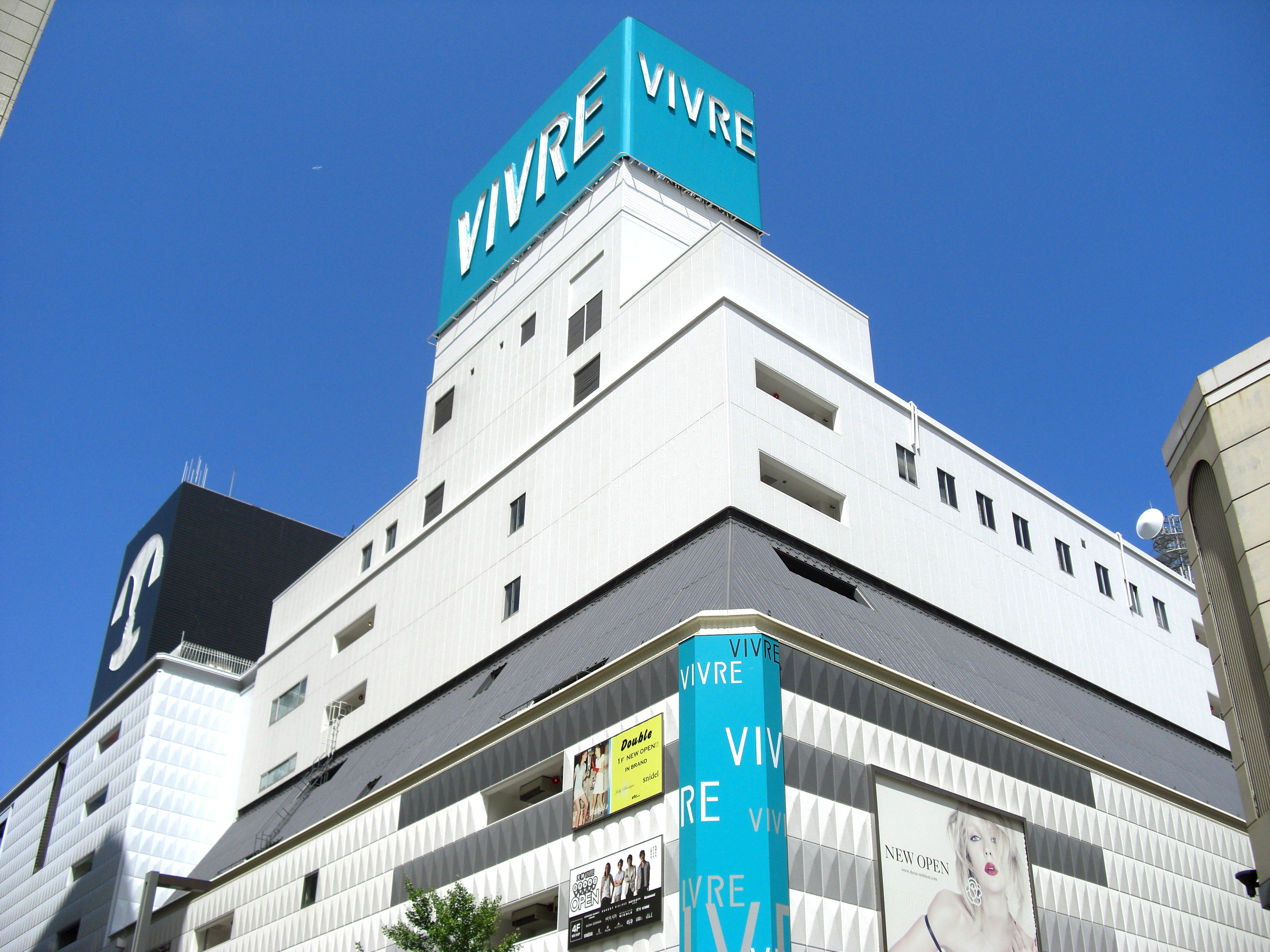 Tenjin VIVRE, 1-11-1 Tenjin, Chuo-Ku Fukuoka City, Fukuoka Prefecture, Japan